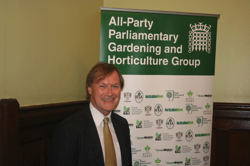 David Amess MP